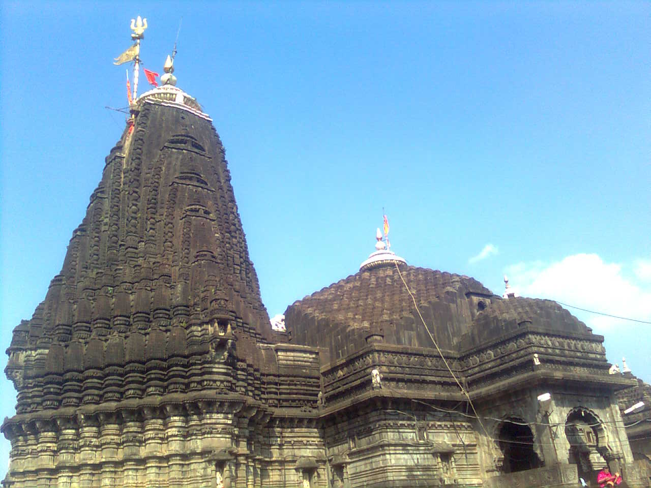 Trimbakeshwar Shiva Temple is one of the 12 Jyotirlinga shrines dedicated to Lord Shiva.